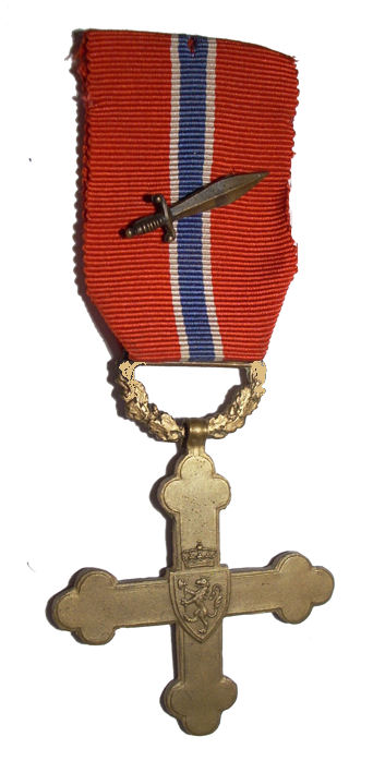 Norwegian War Cross with sword